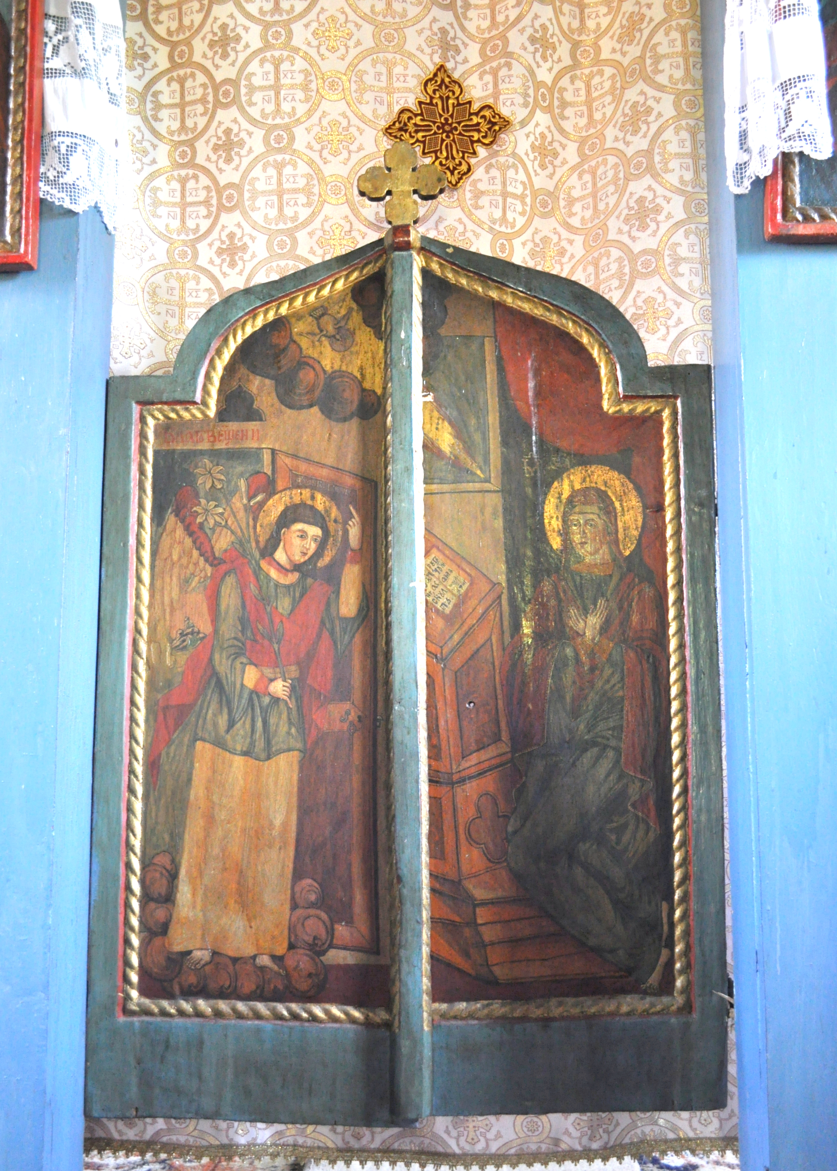 The wooden church in Stoboru, Sălaj county, RomaniaRomână: Ușile împărătești: Buna Vestire